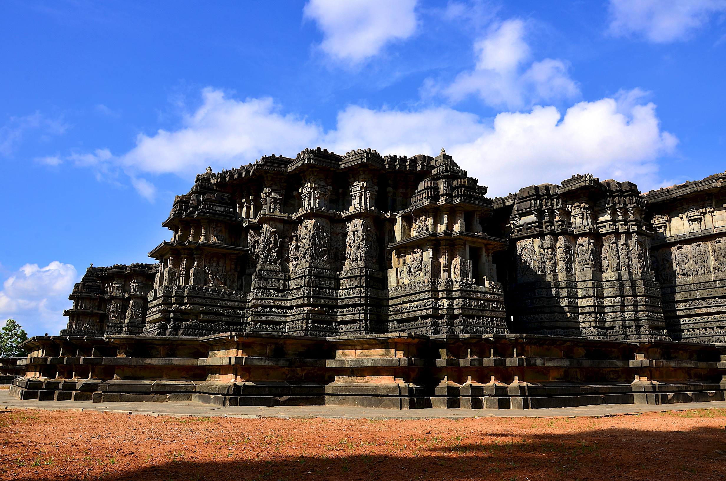 Carvings on the outer wall